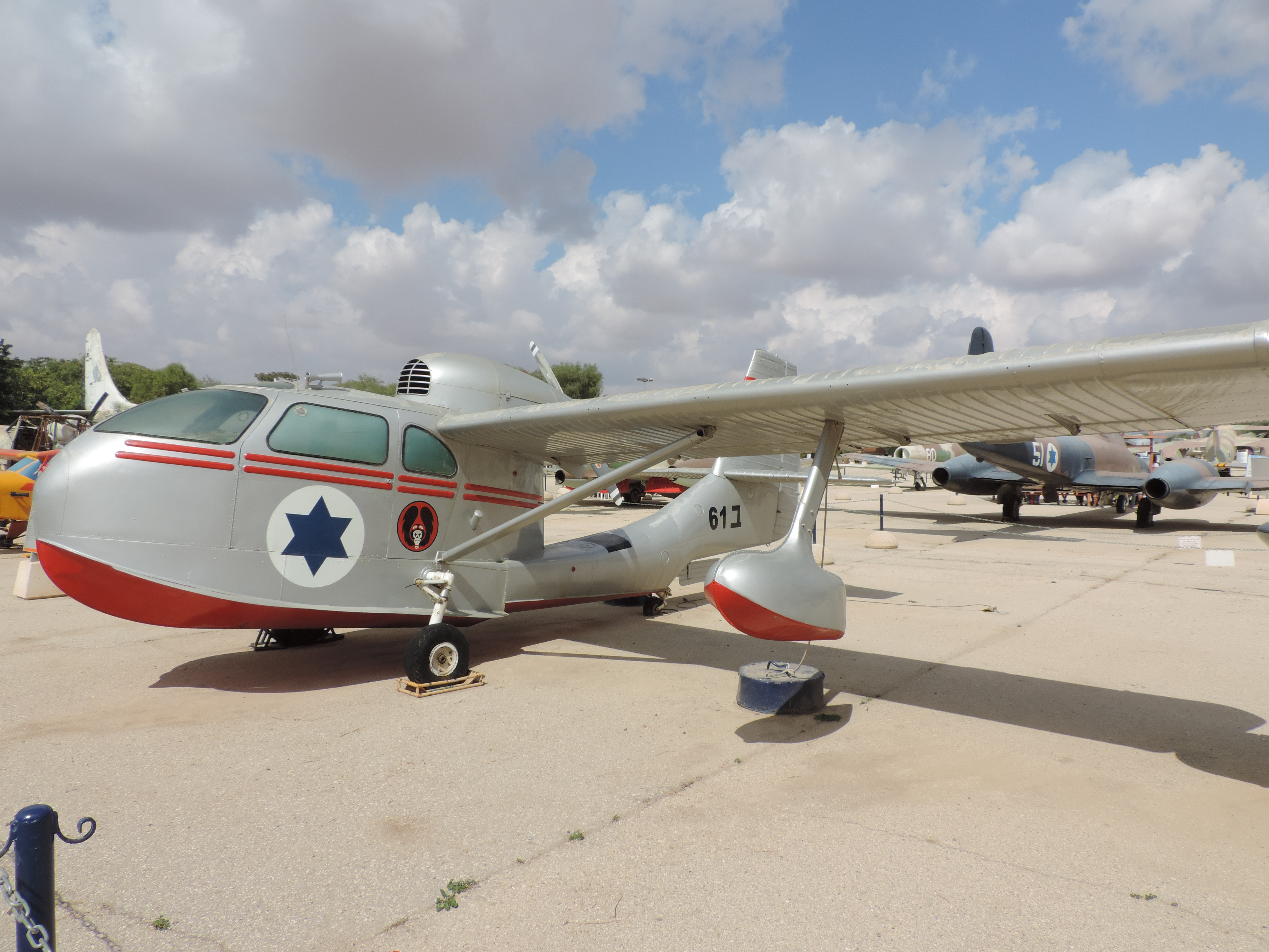 At the Israel Air Force museum in Hazerim